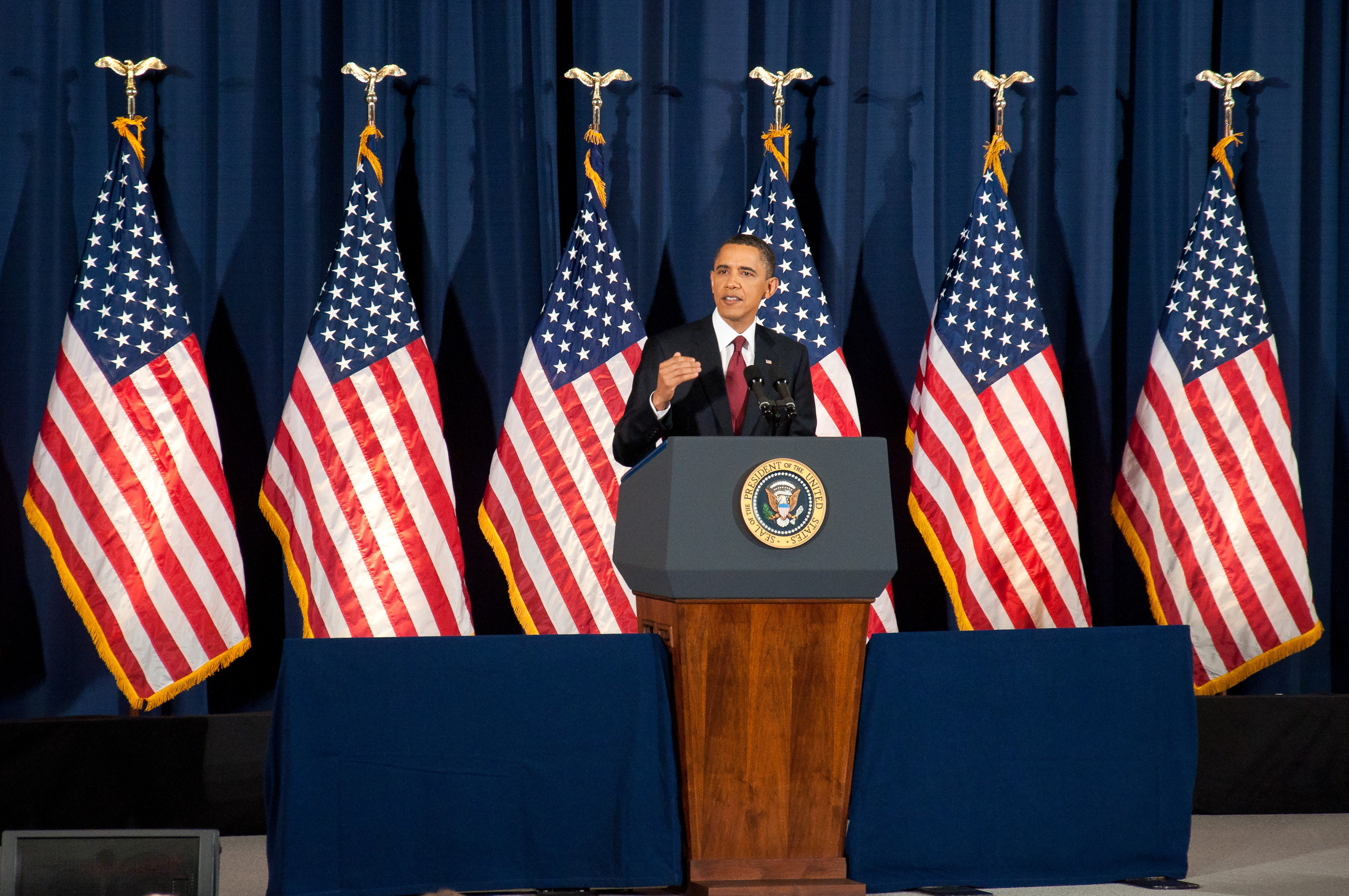 On Monday, March 28, 2011, President Barack Obama delivered an address at the National Defense University in Washington, DC to update the American people on the situation in Libya, including the actions the U.S. government has taken with allies and partners to protect the Libyan people from the brutality of Moammar Qaddafi, the transition to NATO command and control, and policy going forward.